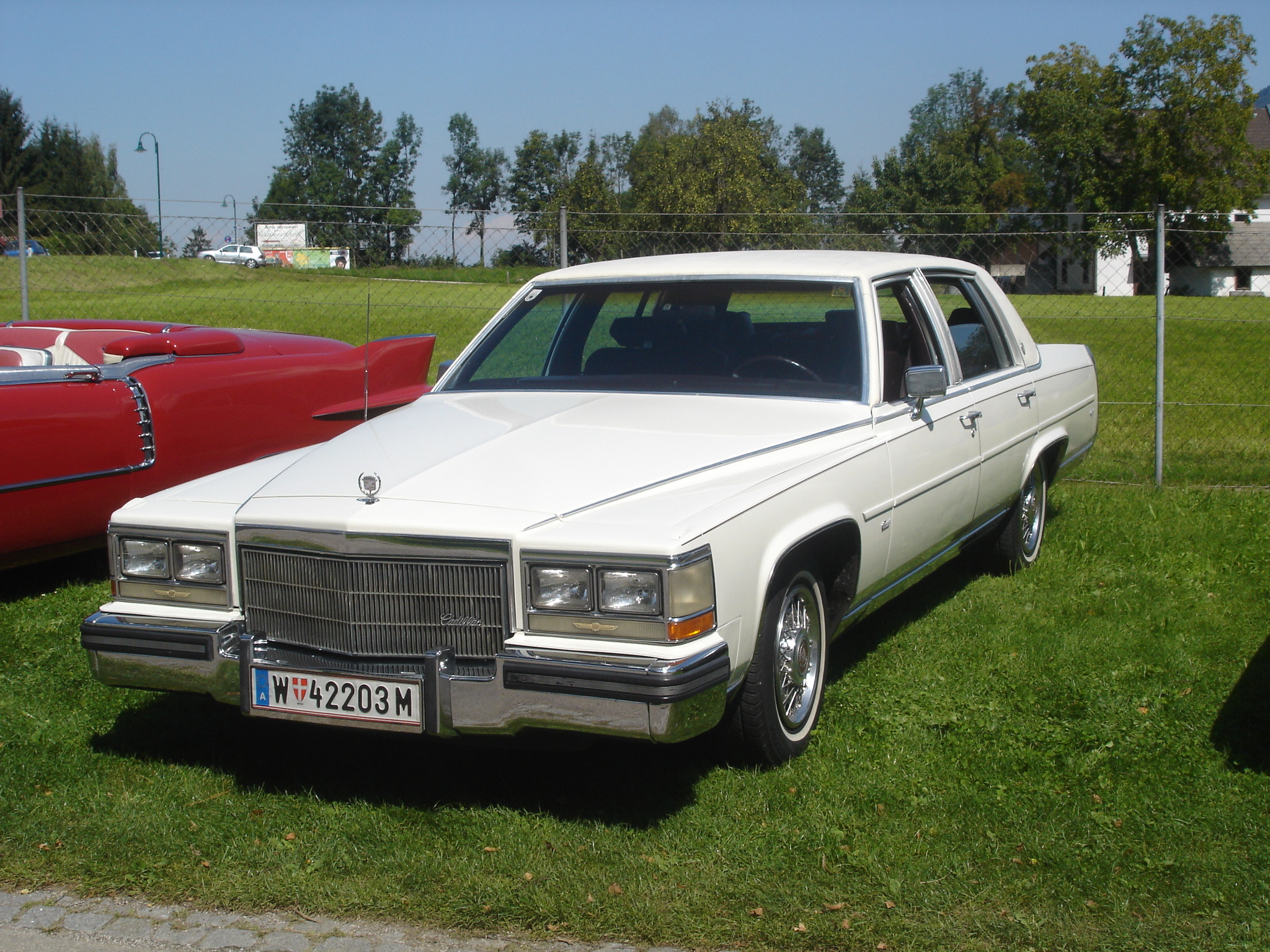 Cadillac Brougham